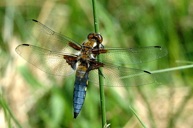 Picture taken in Commanster, Belgian High Ardennes . Species: Libellula depressa male